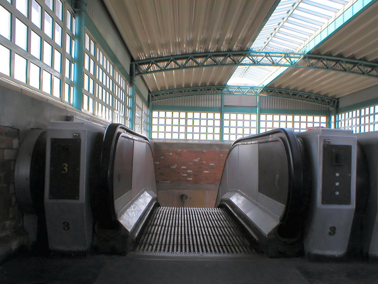 The top of the last wooden escalator on the London Underground, on the platform at Greenford station. All others were replaced in the years following the King's Cross fire in 1987.